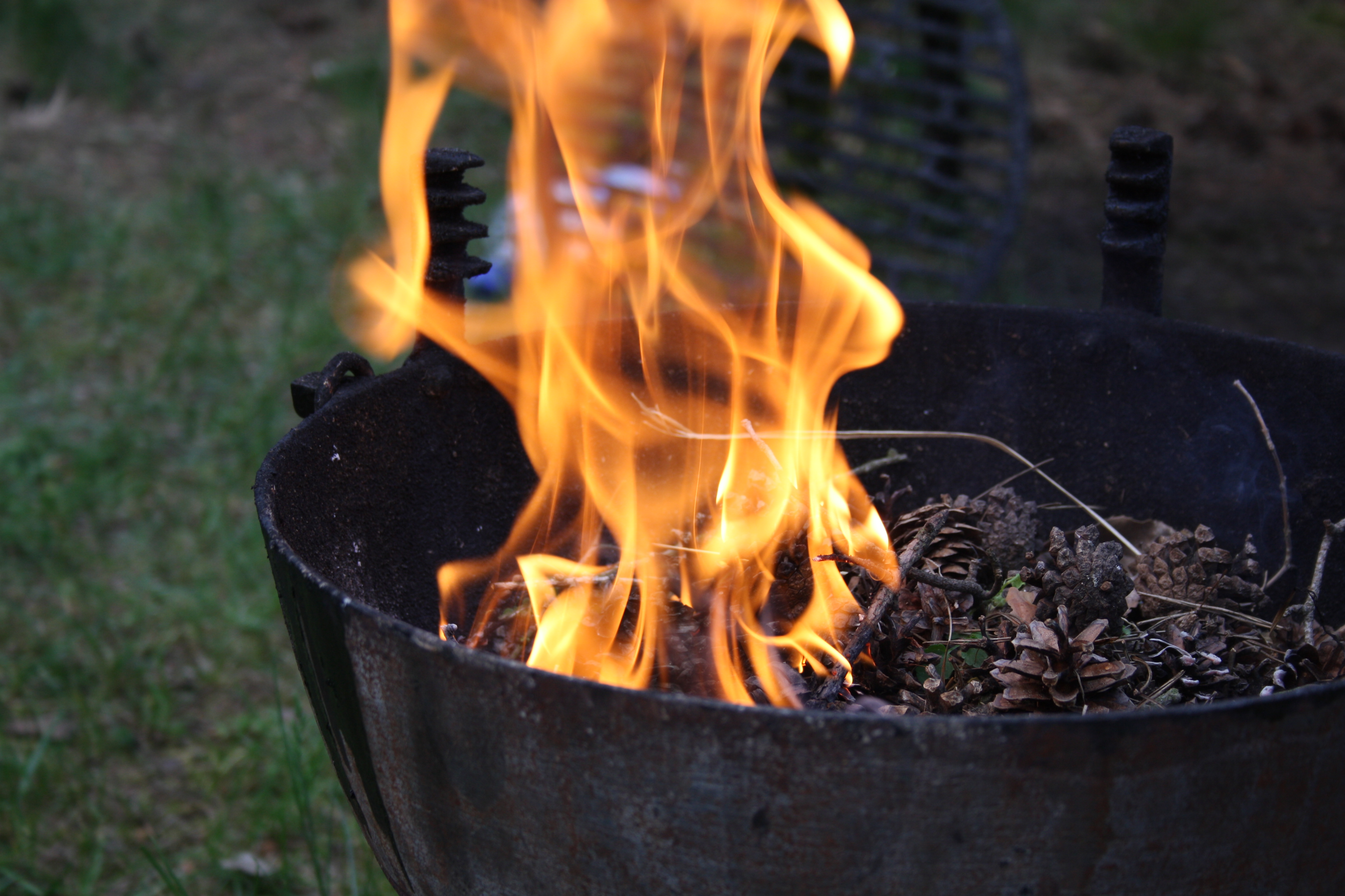 Preparing grill for grilling, grill with flames and cones.